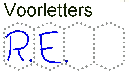 Boxes for initials on a Dutch paper form.